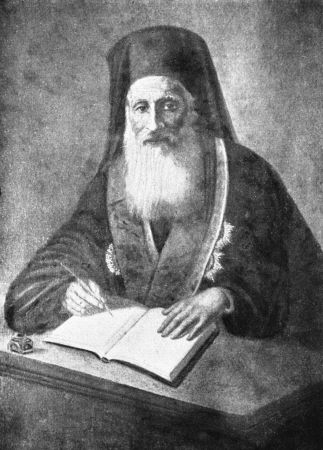 Ecumenical Patriarch Konstantius I